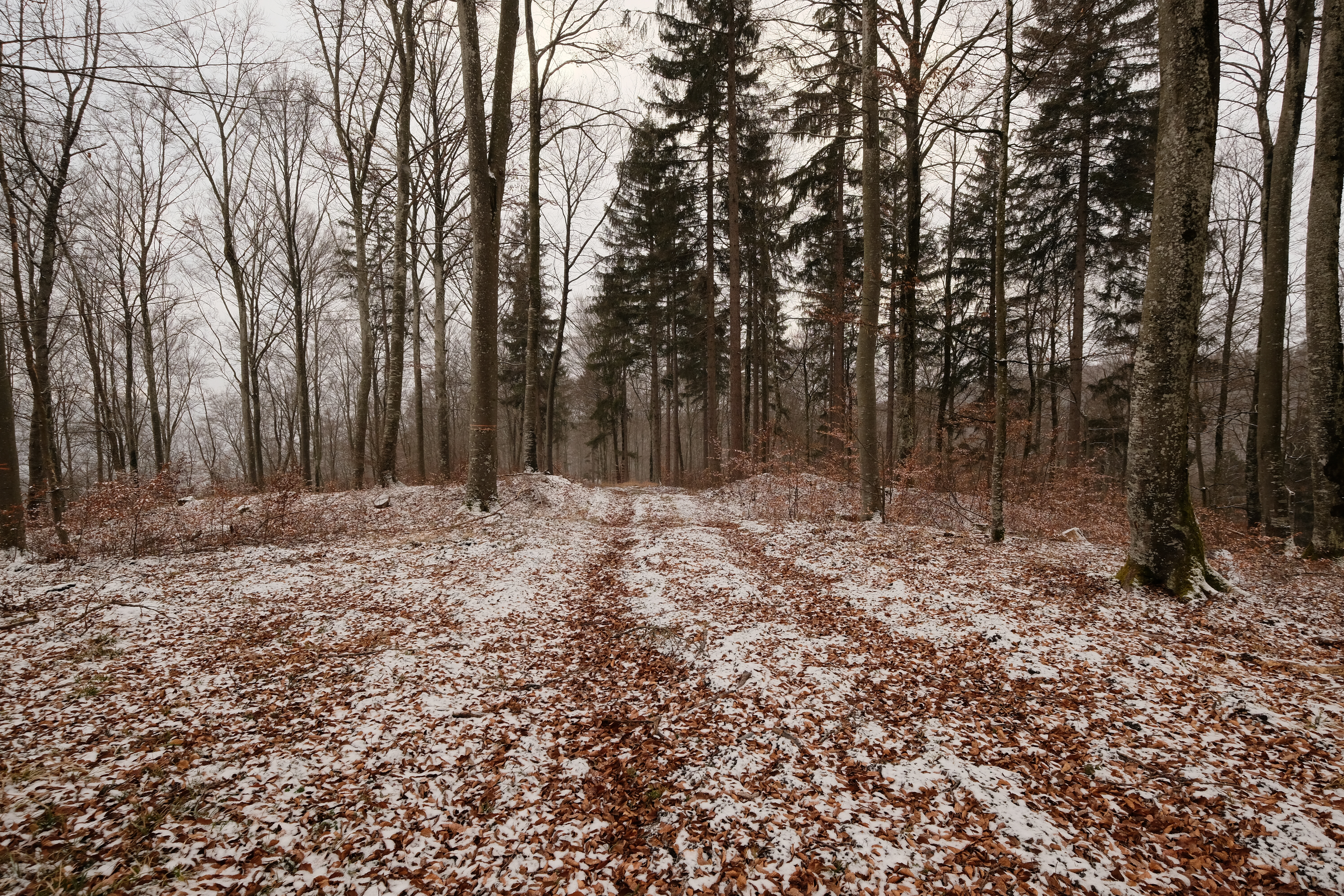 Demolished castle Ehrenburg, Geisingen, district Tuttlingen, Baden-Württemberg, Germany